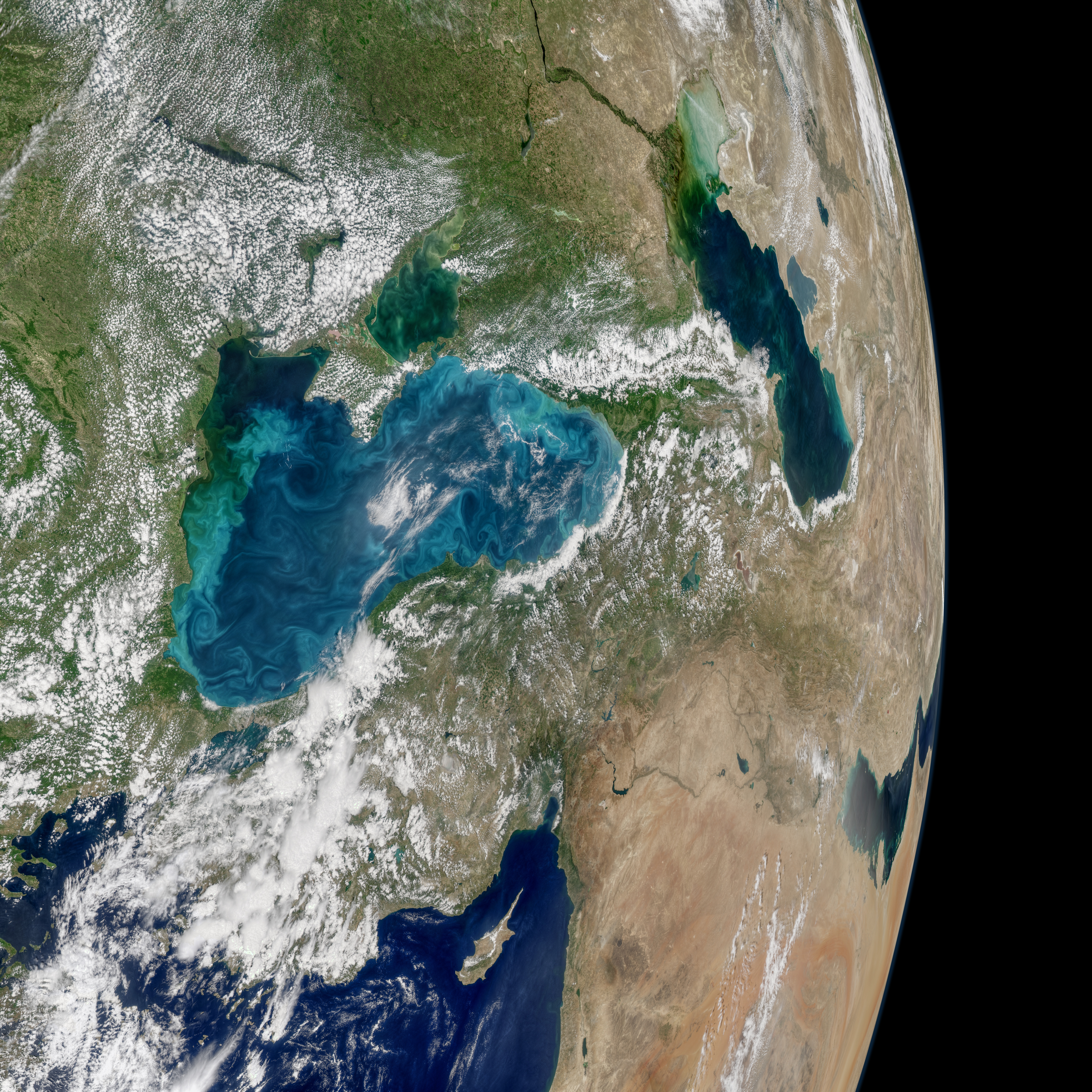 Most summers, jewel-toned hues appear in the Black Sea. The turquoise swirls are not the brushstrokes of a painting; they indicate the presence of phytoplankton, which trace the flow of water currents and eddies. On May 29, 2017, the Moderate Resolution Imaging Spectroradiometer (MODIS) on NASA’s Aqua satellite captured the data for this image of an ongoing phytoplankton bloom in the Black Sea. The image is a mosaic, composed from multiple satellite passes over the region. Phytoplankton are floating, microscopic organisms that make their own food from sunlight and dissolved nutrients. Here, ample water flow from rivers like the Danube and Dnieper carries nutrients to the Black Sea. In general, phytoplankton support fish, shellfish, and other marine organisms. But large, frequent blooms can lead to eutrophication—the loss of oxygen from the water—and end up suffocating marine life. One type of phytoplankton commonly found in the Black Sea are coccolithophores—microscopic plankton that are plated with white calcium carbonate. When aggregated in large numbers, these reflective plates are easily visible from space as bright, milky water. “The May ramp-up in reflectivity in the Black Sea, with peak brightness in June, seems consistent with results from other years,” said Norman Kuring, an ocean scientist at NASA’s Goddard Space Flight Center. Although Kuring does not study this region, the bloom this year is one of the brightest to catch his eye since 2012. Other types of phytoplankton can look much different in satellite imagery. “It’s important to remember that not all phytoplankton blooms make the water brighter,” Kuring said. “Diatoms, which also bloom in the Black Sea, tend to darken water more than they brighten it.”